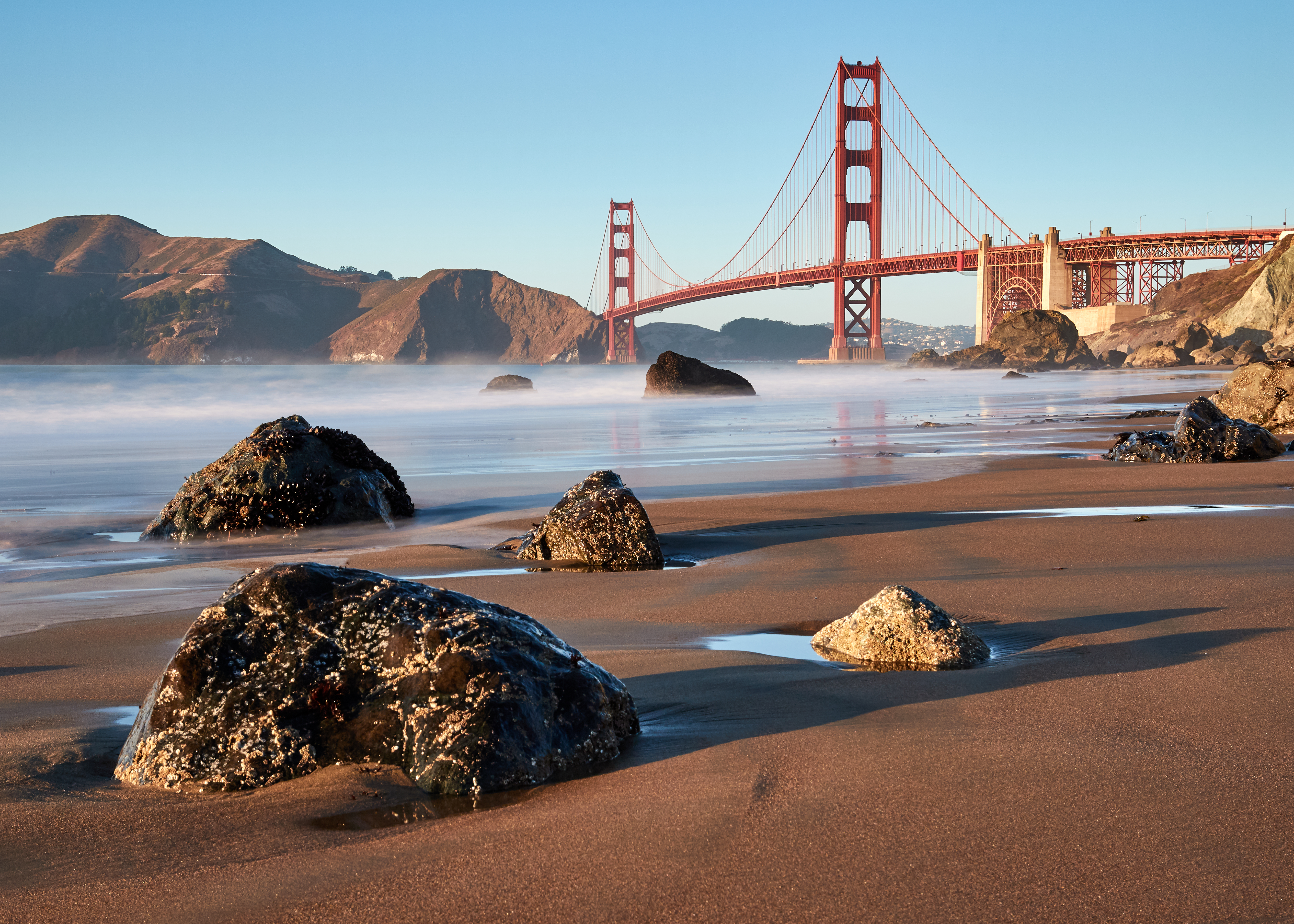 The Golden Gate Bridge as seen from Marshall’s Beach, October 2017